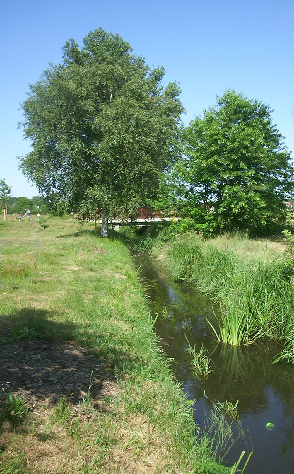 A part of the Struga's Au in Schleife, Germany (en.WP) Map: 51° 32' 23" N, 14° 31' 53" E